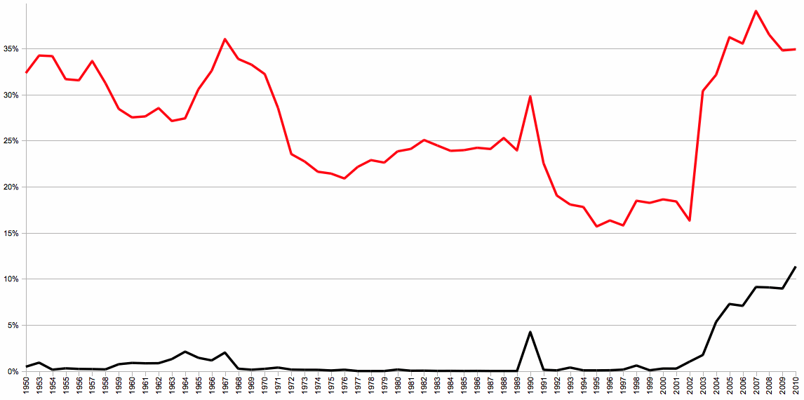 Red line on this chart represents the share of the overseas troops of the USA, based on the data from the United States Department of Defense. Black line represents troops that fall under 'Undistributed' category in the reports (e.g. no country of dislocation is indicated). There is no data for years 1951 and 1952 --- period of the Korean War. Since 2003 deployments to Afghanistan and Iraq/Kuwait are counted separately (Operation Enduring Freedom, Operation Iraqi Freedom, Operation New Dawn), however those troops have been deployed mostly from the Continental US, thus they were added to 'Total - Foreign Countries' category numbers. 'Total - Undistributed' is already included in 'Total - Foreign Countries' in the reports. For September 2010 an estimate of 219,190 troops are in OND and OEF category, plus 162,437 troops are in 'Undistributed' category, making a total of 381,627 troops not stationed in the 'allied countries'. The data for the chart calculation is below.